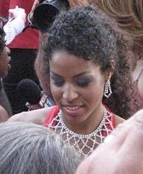 Picture of Lisa Tucker. Cropped version of Image:Princessp.jpg